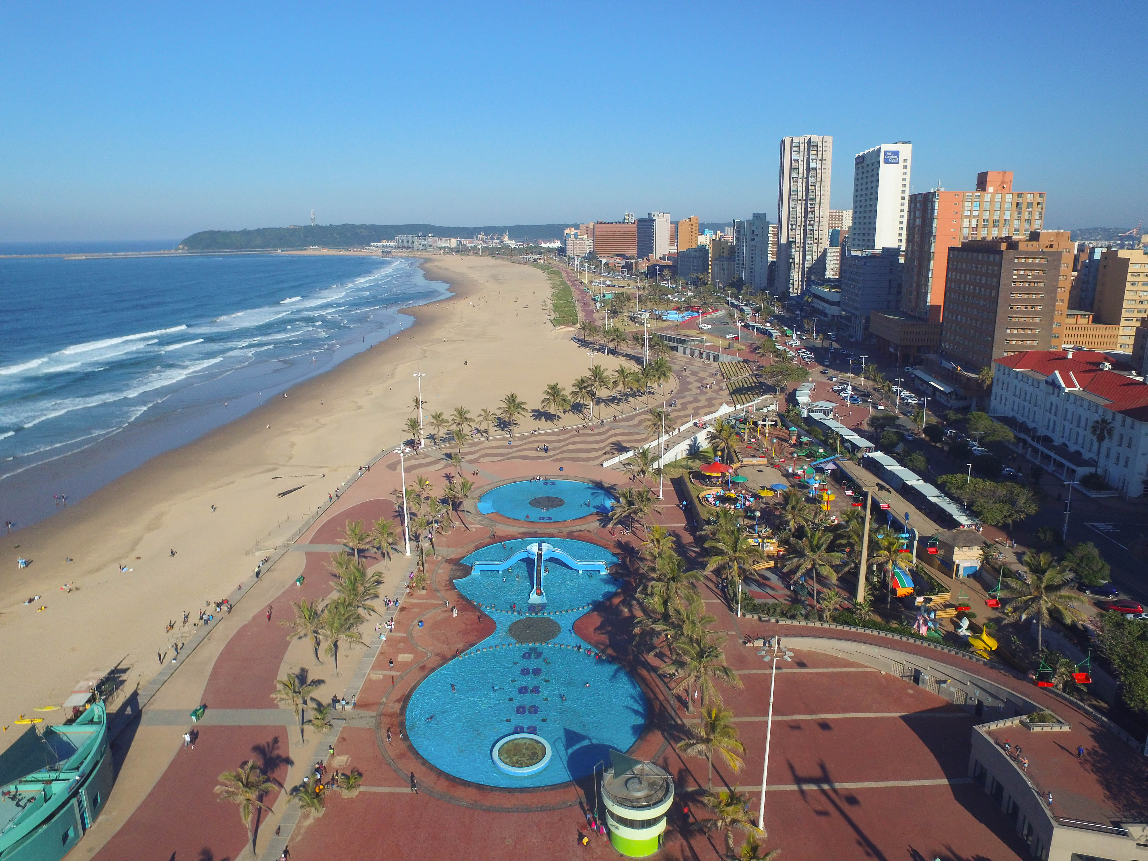 The Marine parade pools on Durban's "golden mile". These salt water pools are free to the public and we renovated for the 2010 Fifa World Cup